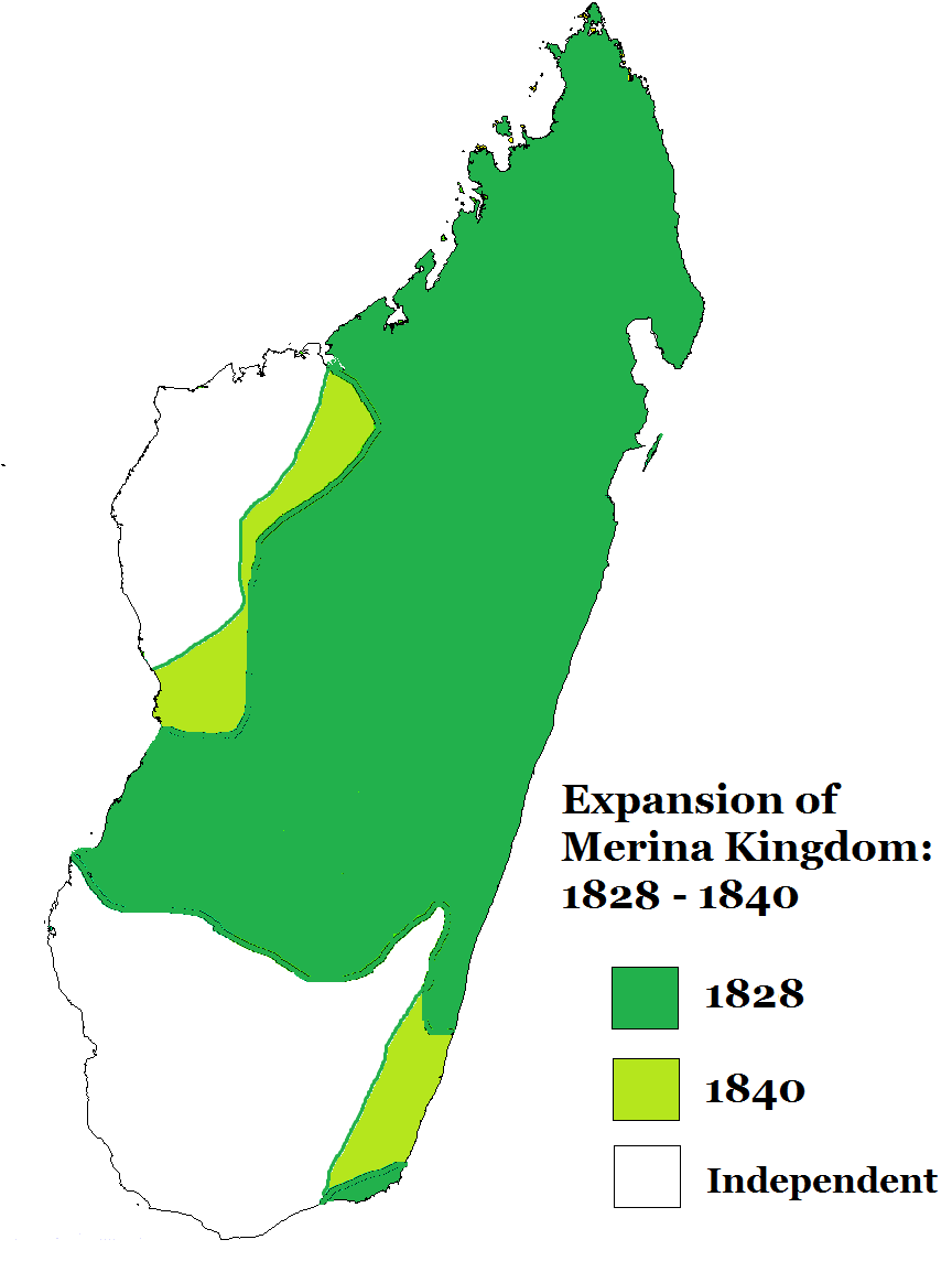 Expansion of the Kingdom of Madagascar under the rule of Ranavalona I, 1828 - 1840. Map draws from p. 528 of Fage & Oliver (1985), Cambridge History of Africa, vol. 6, and p. 166 of Ade Ajayi (1998), Africa in the Nineteenth Century Until the 1880s.